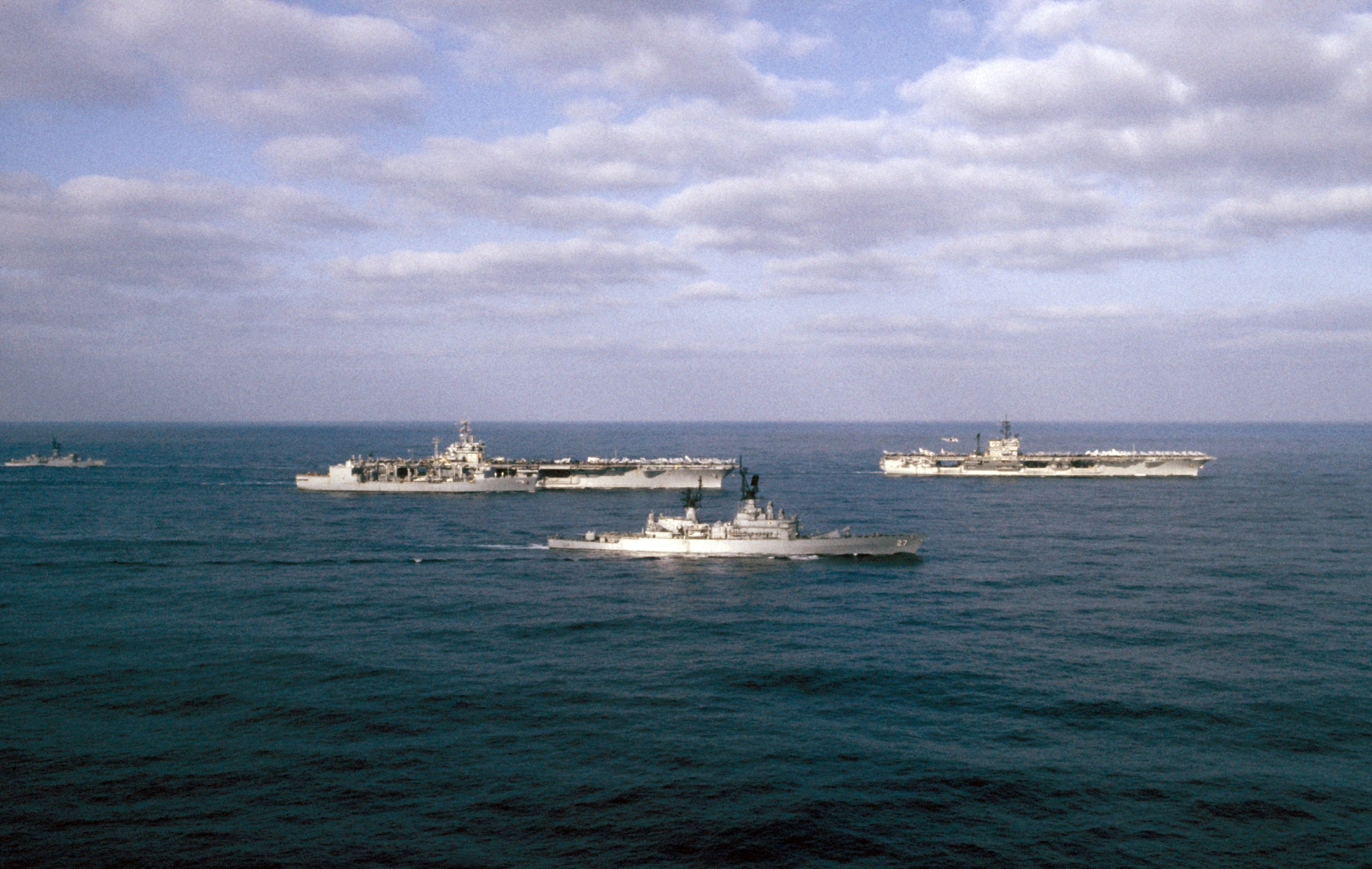 ID: DNST8704580 Service Depicted: Navy A starboard view of US Navy ships of Carrier Battle Group Eight off the coast of Lebanon. The ships are, left to right: the frigate USS W.S. SIMS (FF 1059), replenishment oiler USS KALAMAZOO (AOR 6), nuclear-powered aircraft carrier USS NIMITZ (CVN 68), guided missile cruiser JOSEPHUS DANIELS (CG 27) and the aircraft carrier USS JOHN F. KENNEDY (CV 67). Camera Operator: PH2 BUTLER DAY Date Shot: 5 Feb 1979 (remark: This date must be wrong since both carriers unterwent overhaul in Feb 1979. More likely this was taken one year earlier)